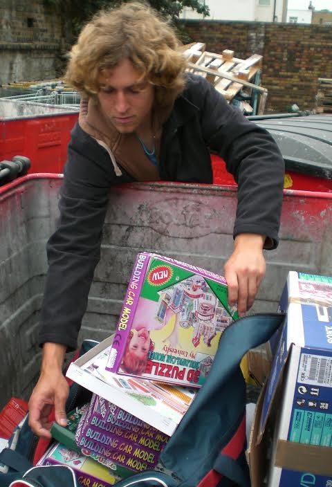 Bob Rynham, Jesus Christian, bin raiding in London, August 2007